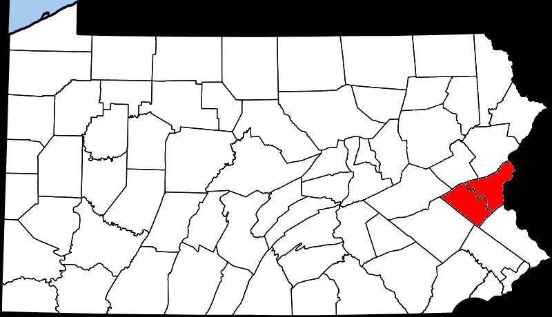 altered version of (Public domain map courtesy of The General Libraries, The University of Texas at Austin, modified to show counties relevant to article. Released under GFDL. See Wikipedia:U.S. county maps.)